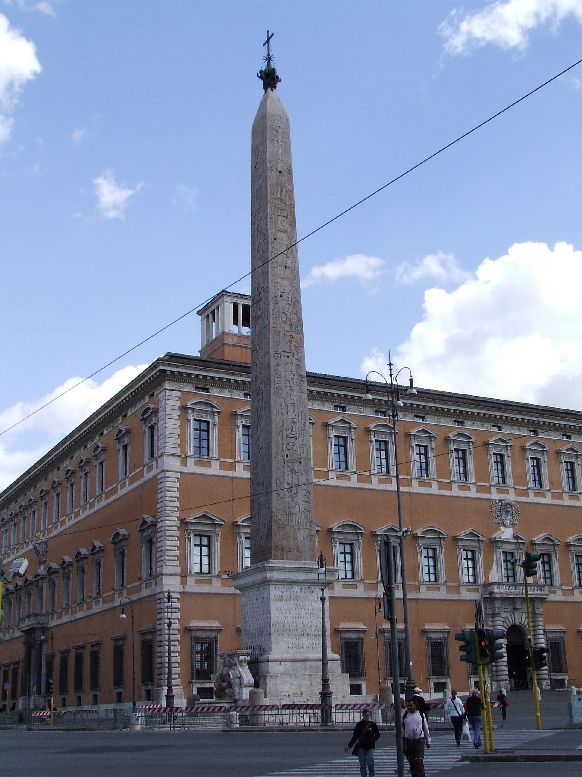 Palace of St. John Lateran and the obelisk of Thuthmose IV from the north eastern corner of the palace complex.